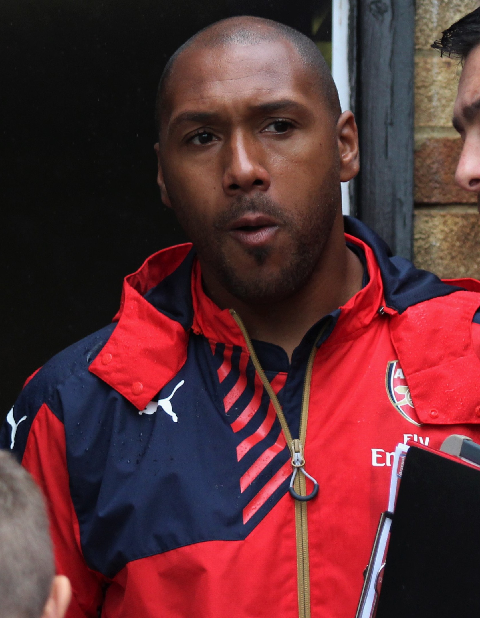 Arsenal Ladies manager Pedro Martinez Losa talks to Arsenal Ladies goalkeeper coach Jason Brown before kick off.